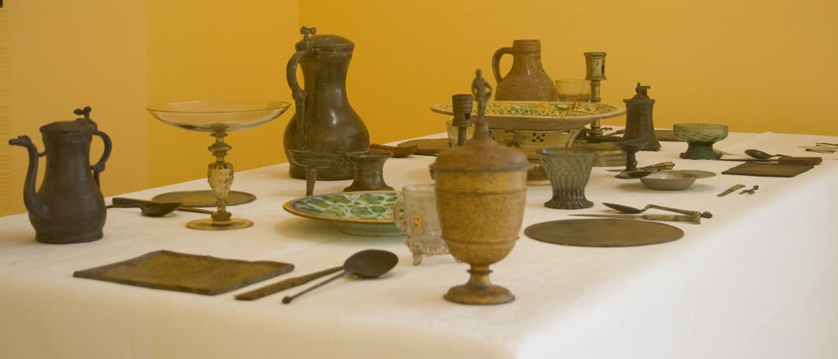 Laid table with old crockery, pewter and old wineglasses